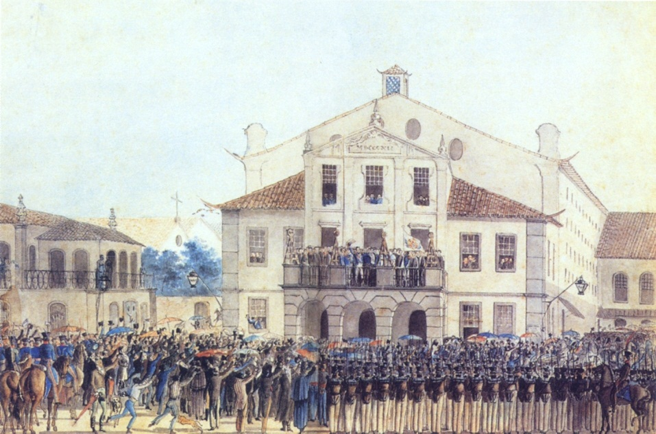 "Aceitação provisória da Constituição de Lisboa". Prince Pedro (later Emperor Pedro I) makes the oath of obedience to the Constitution in the name of his father on 26 February 1821